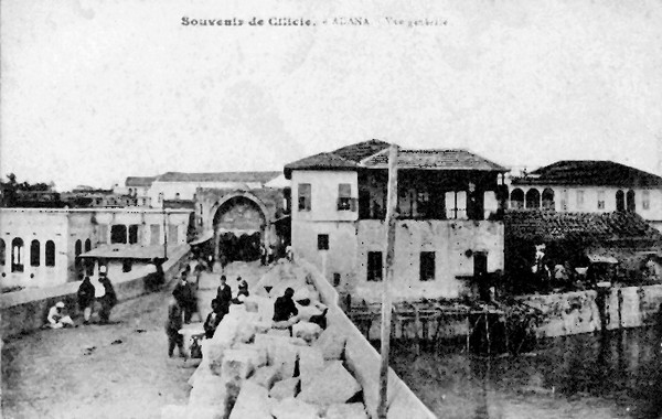 Entrance to Adana from Tasköprü in 1920